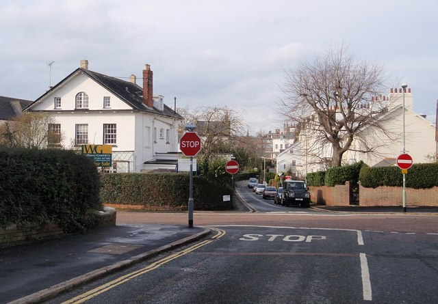 Wonford Road, Exeter. Seen here as it crosses St Leonard's Road, and passes the terrace shown in 319587. The elegant house on the left, dating from about 1840, is described at .